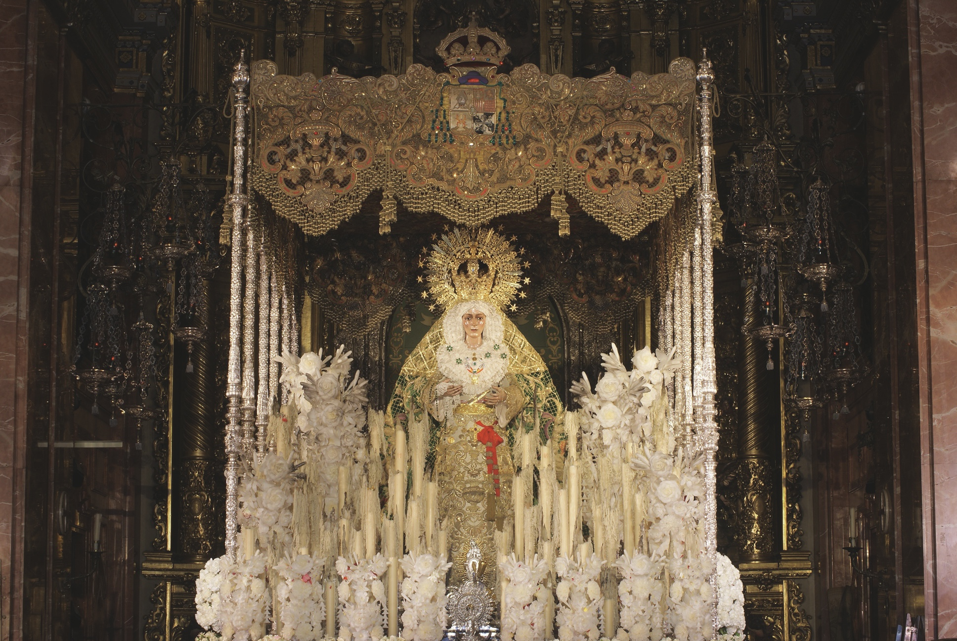 María Santísima de la Esperanza Macarena en su paso de palio